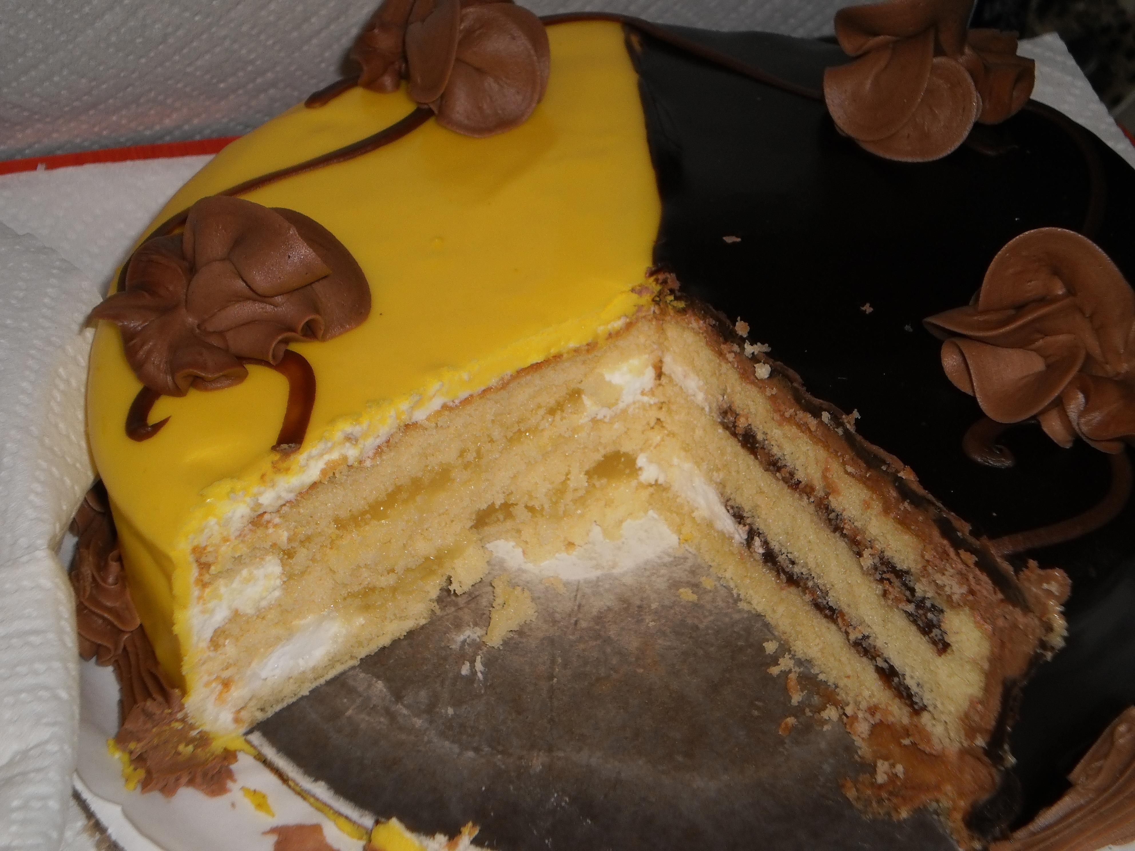 Layers of a Doberge Cake